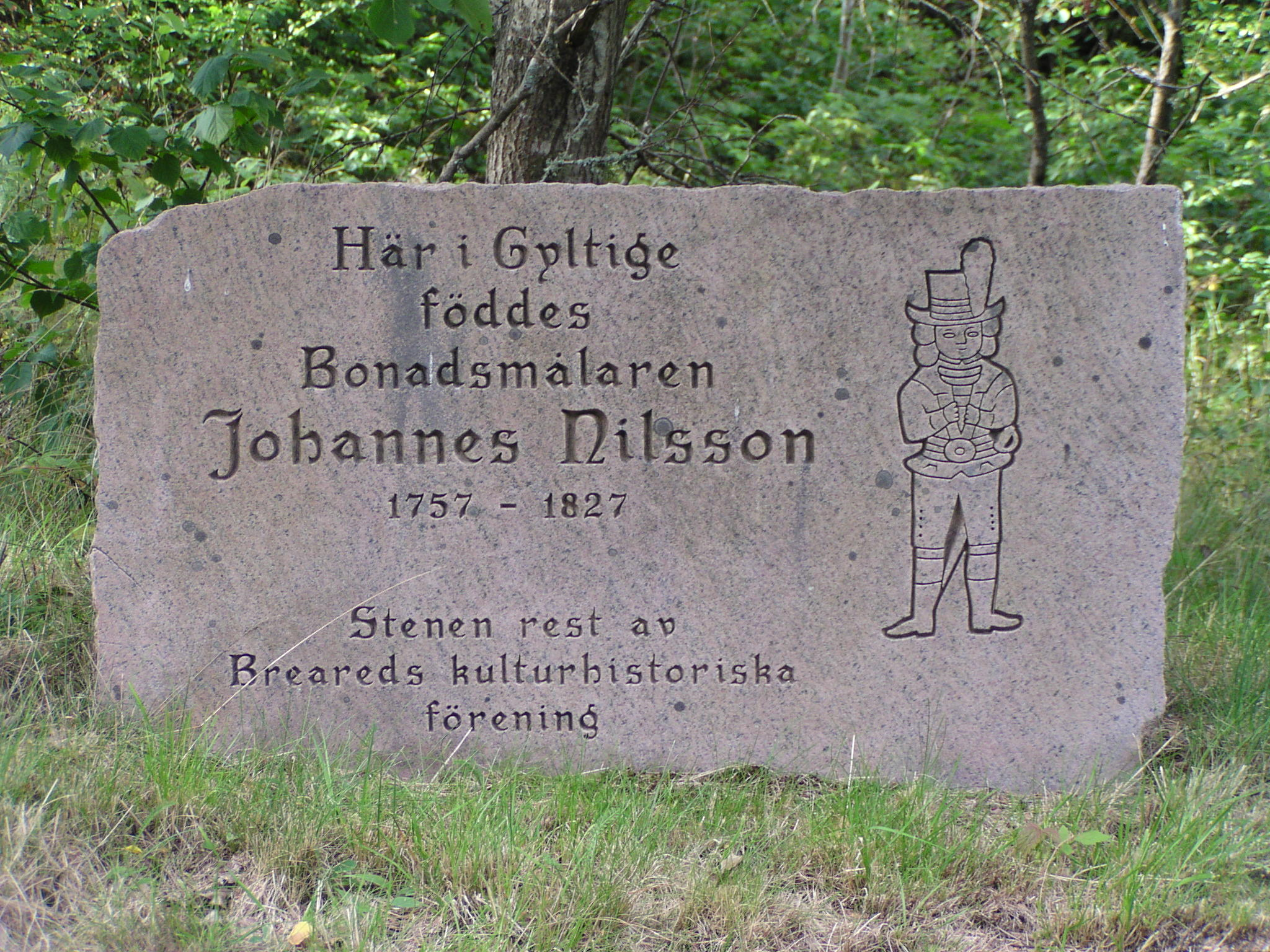 Memorial stone for Johannes Nilsson from Gyltige, Breared, painter of wall hangings